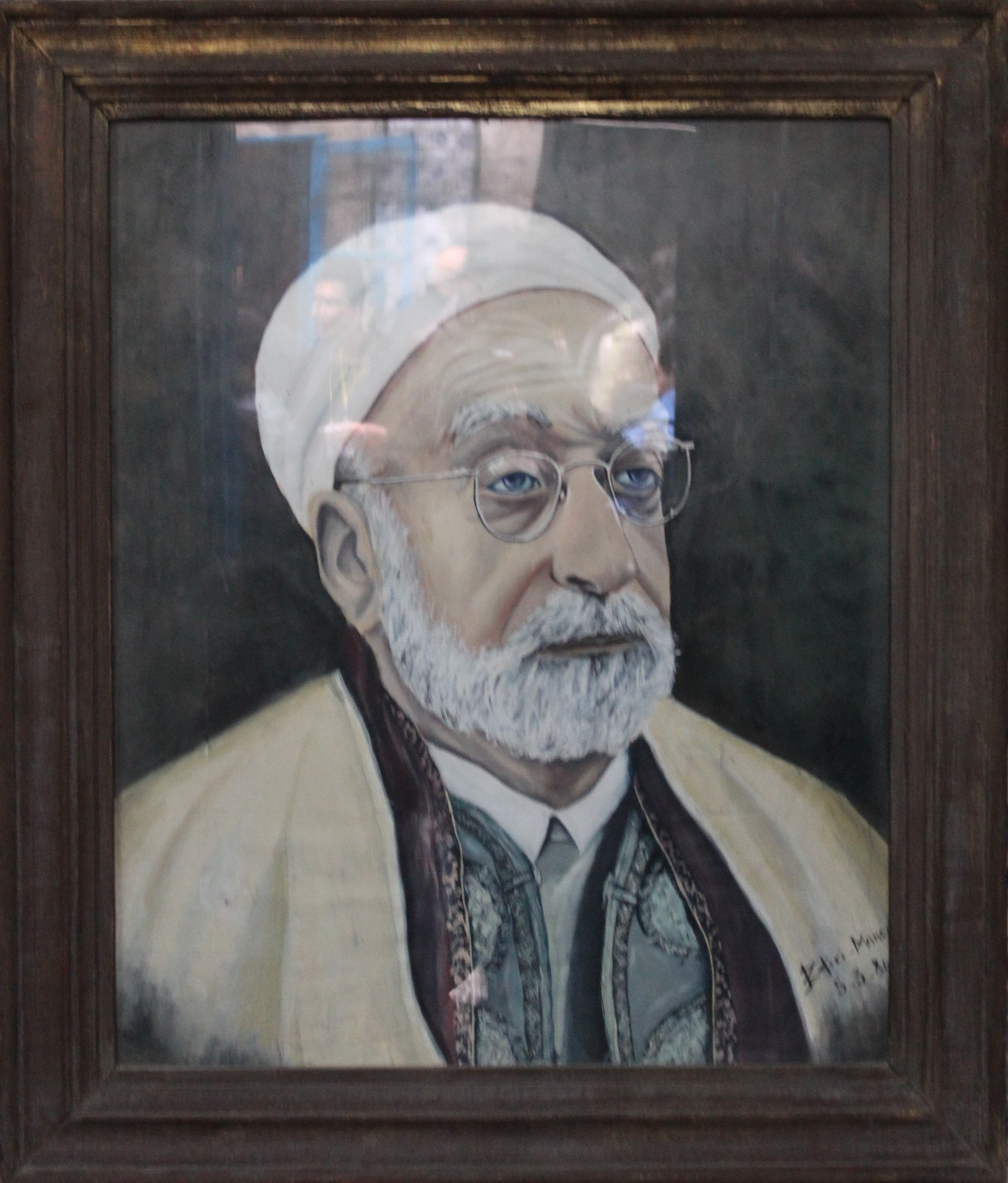 Tunisian personality